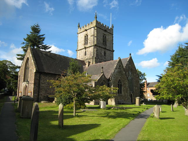 St Laurence's, Church Stretton 279034 seen on a sunny day!